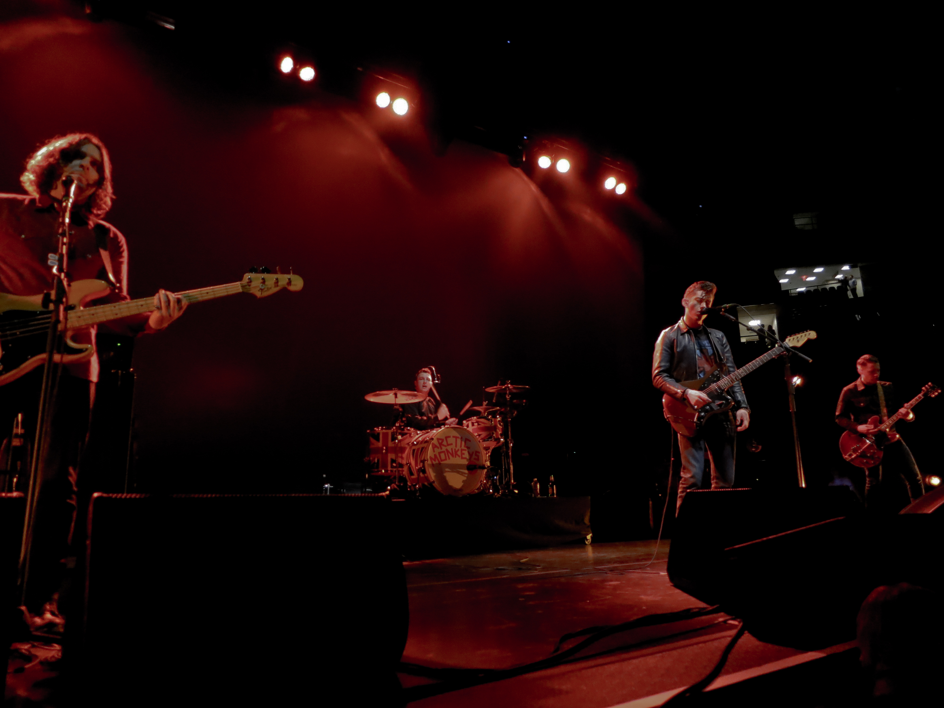 Arctic Monkeys opening for The Black Keys and Madison Square Garden on March 22nd, 2012